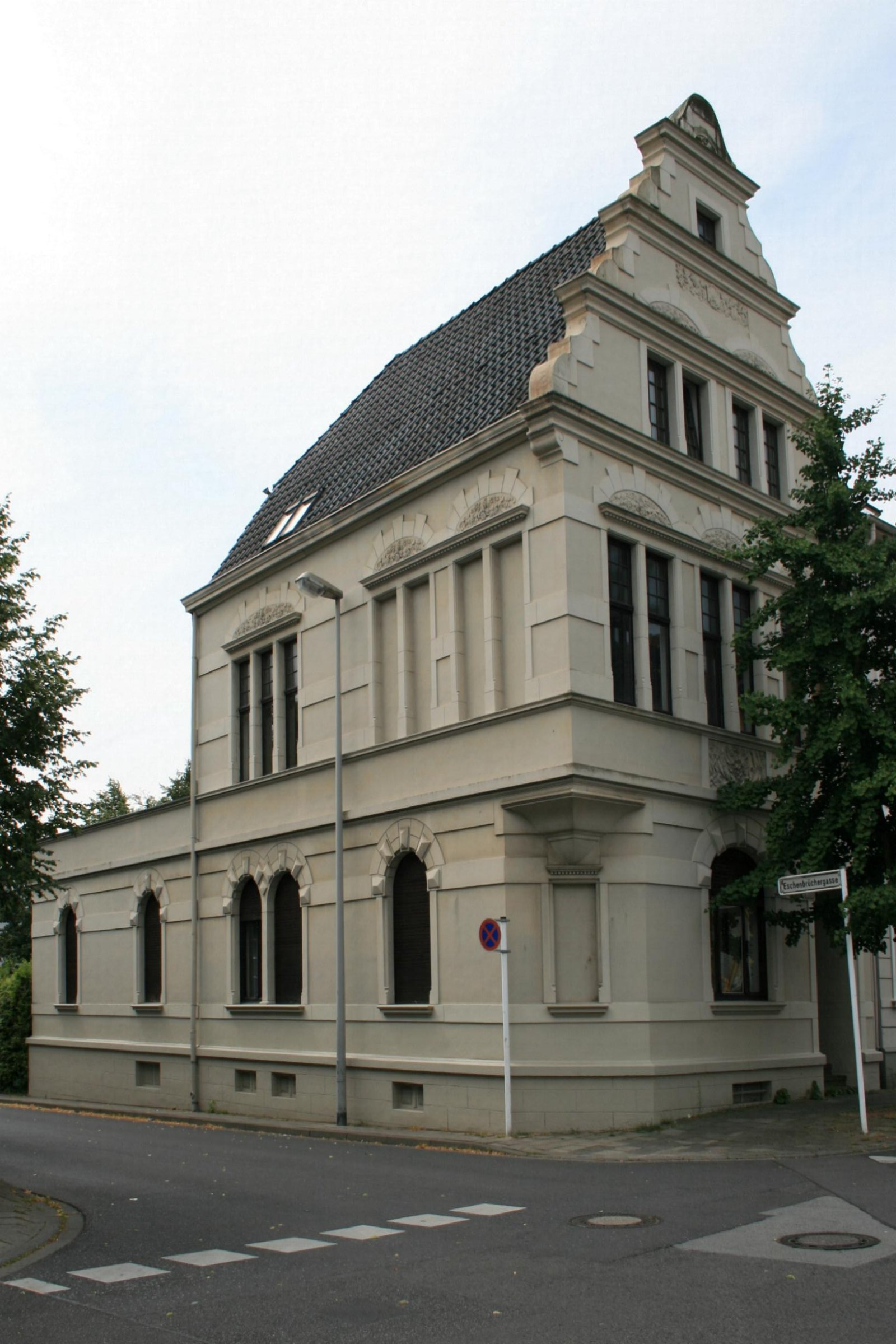 Cultural heritage monument No. M 029 in Mönchengladbach